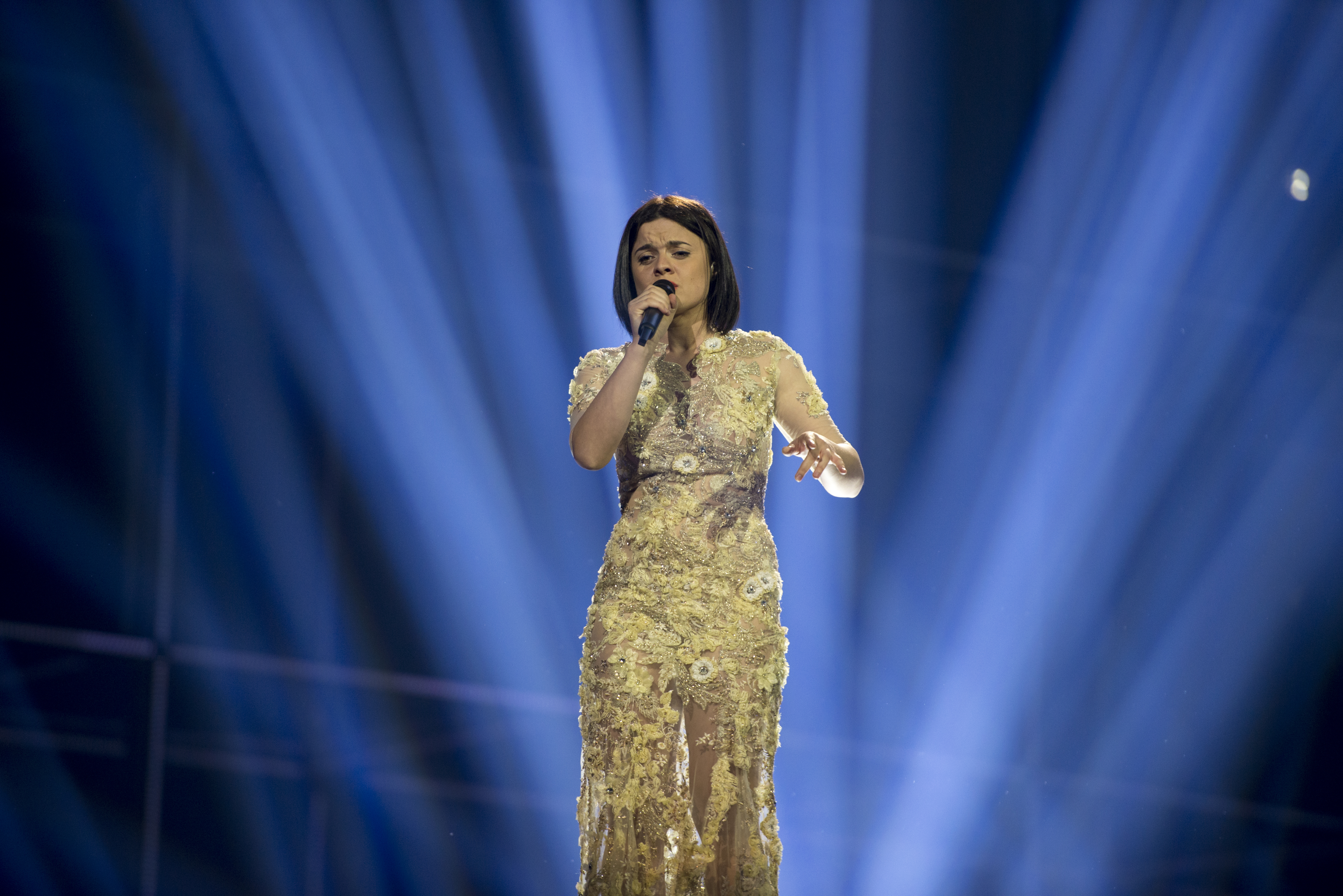 Herciana Matmuja representing Albania with the song "One Night's Anger" during the first dress rehearsal of the first semi final of the Eurovision Song Contest 2014 Copenhagen. (Help translate this text)